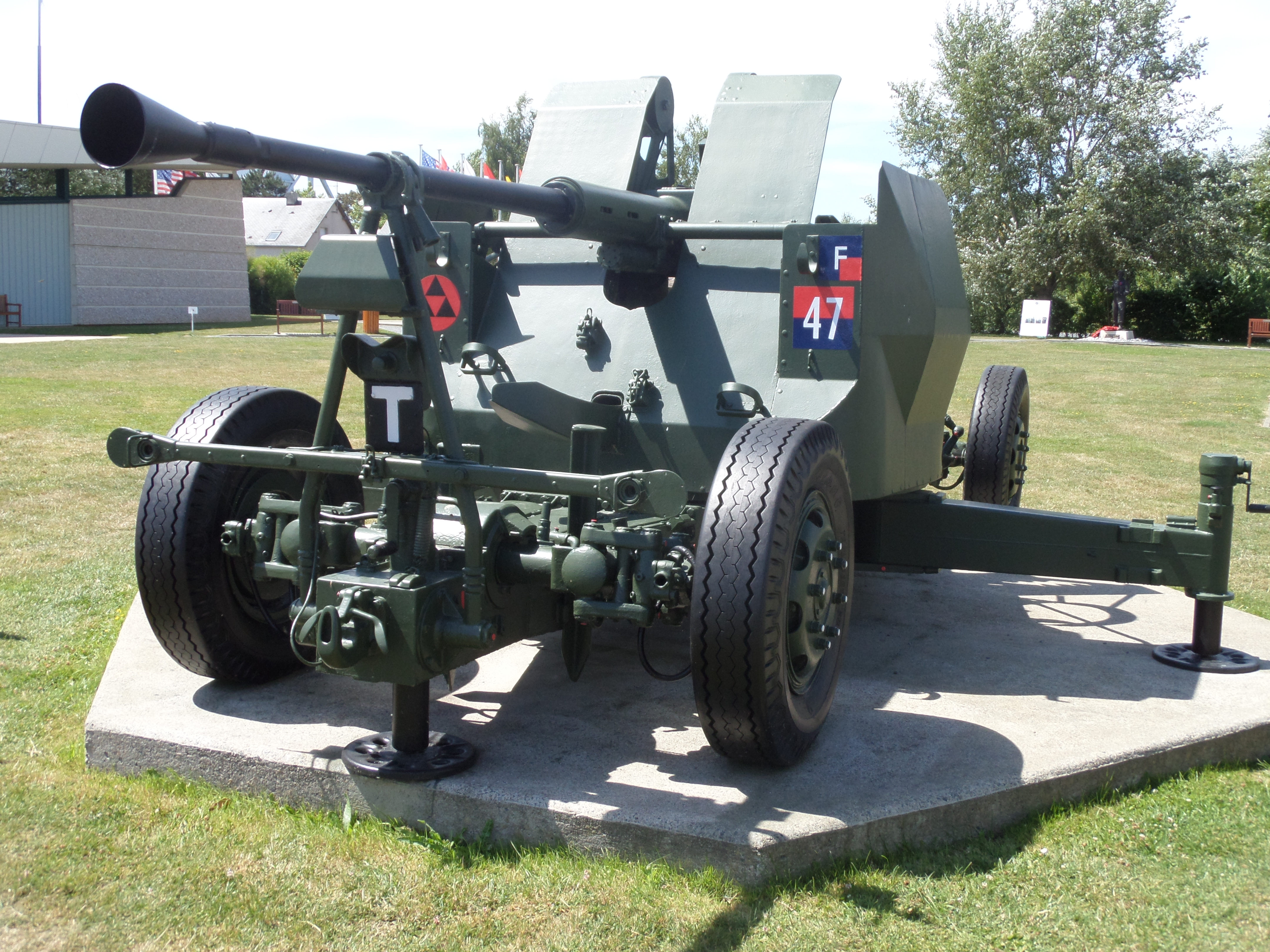 Bofors 40 mm, Pegasus Bridge, Normandy, France